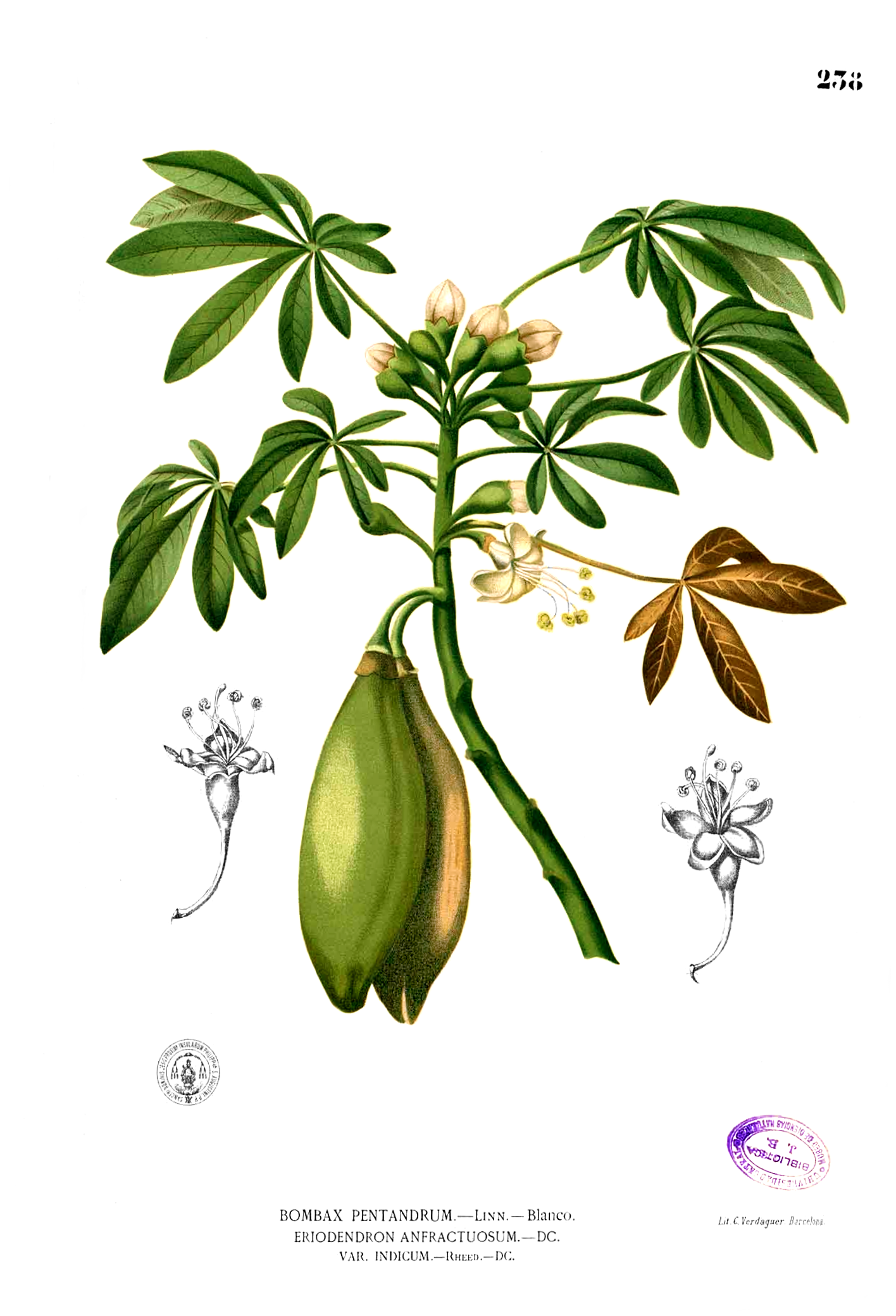 Plate from book